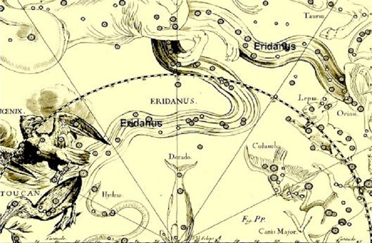 Eridanus Constellation